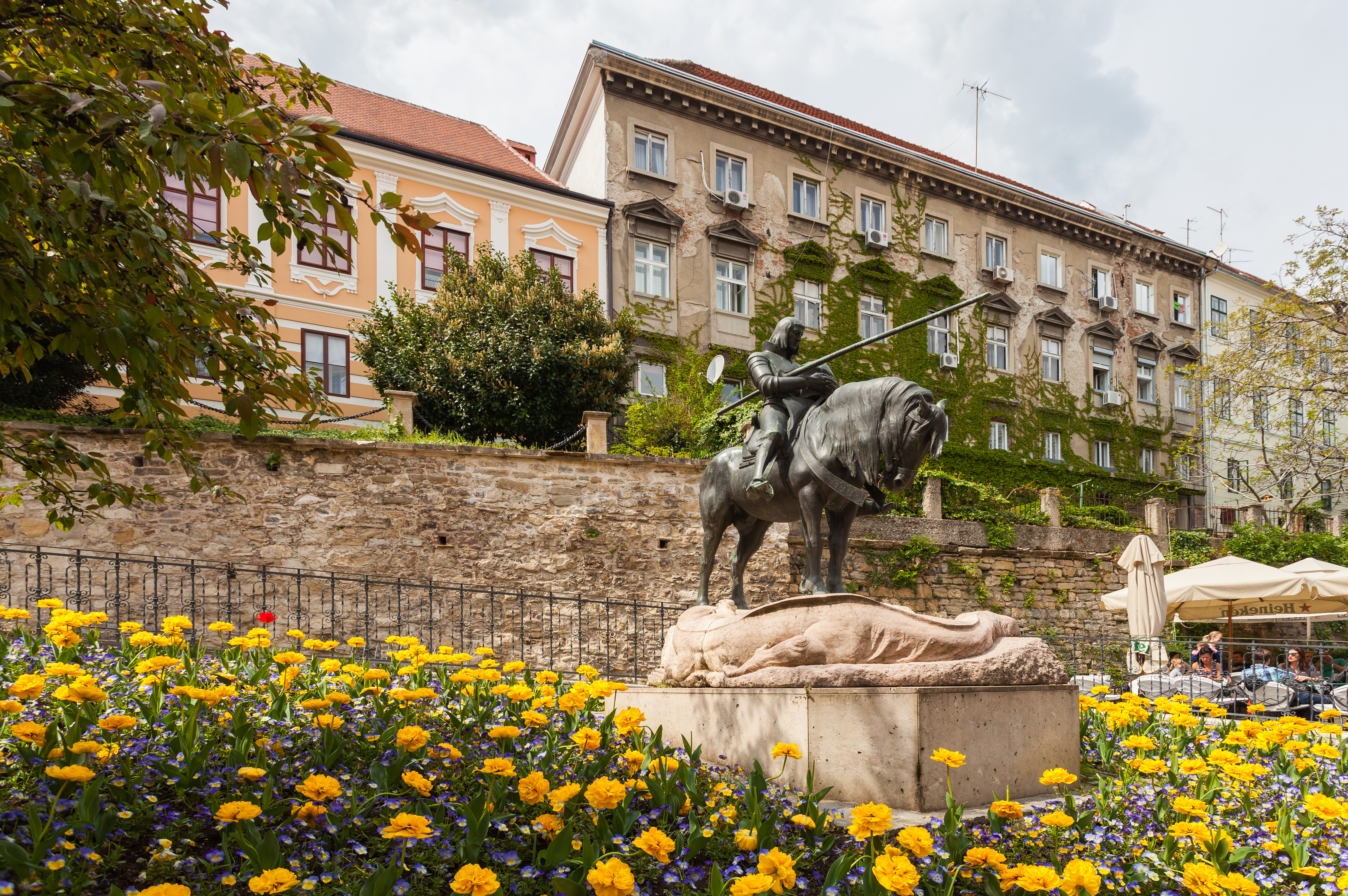 Statue of Saint George killed the Dragon, Zagreb, Croatia